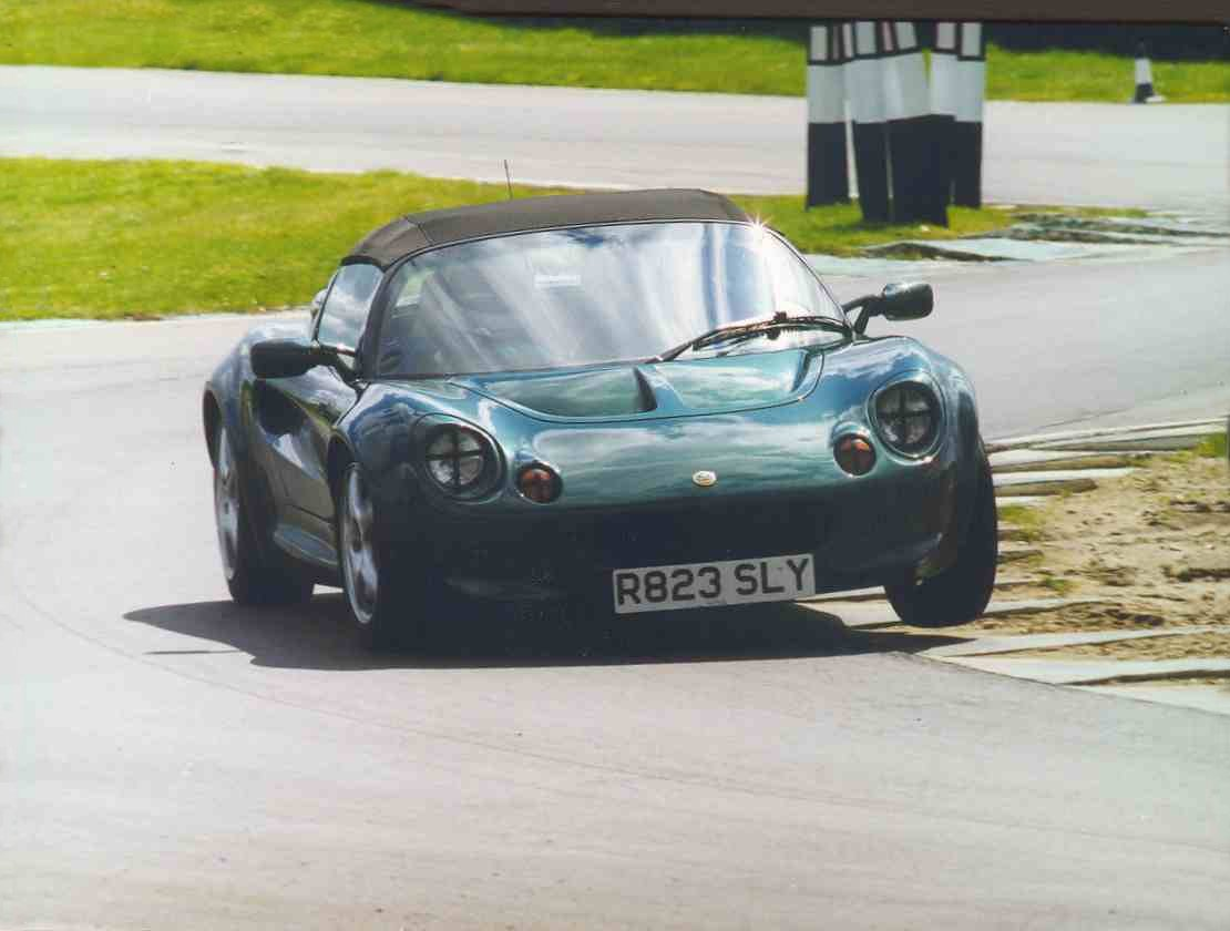 Derrick Rowe, Own Car